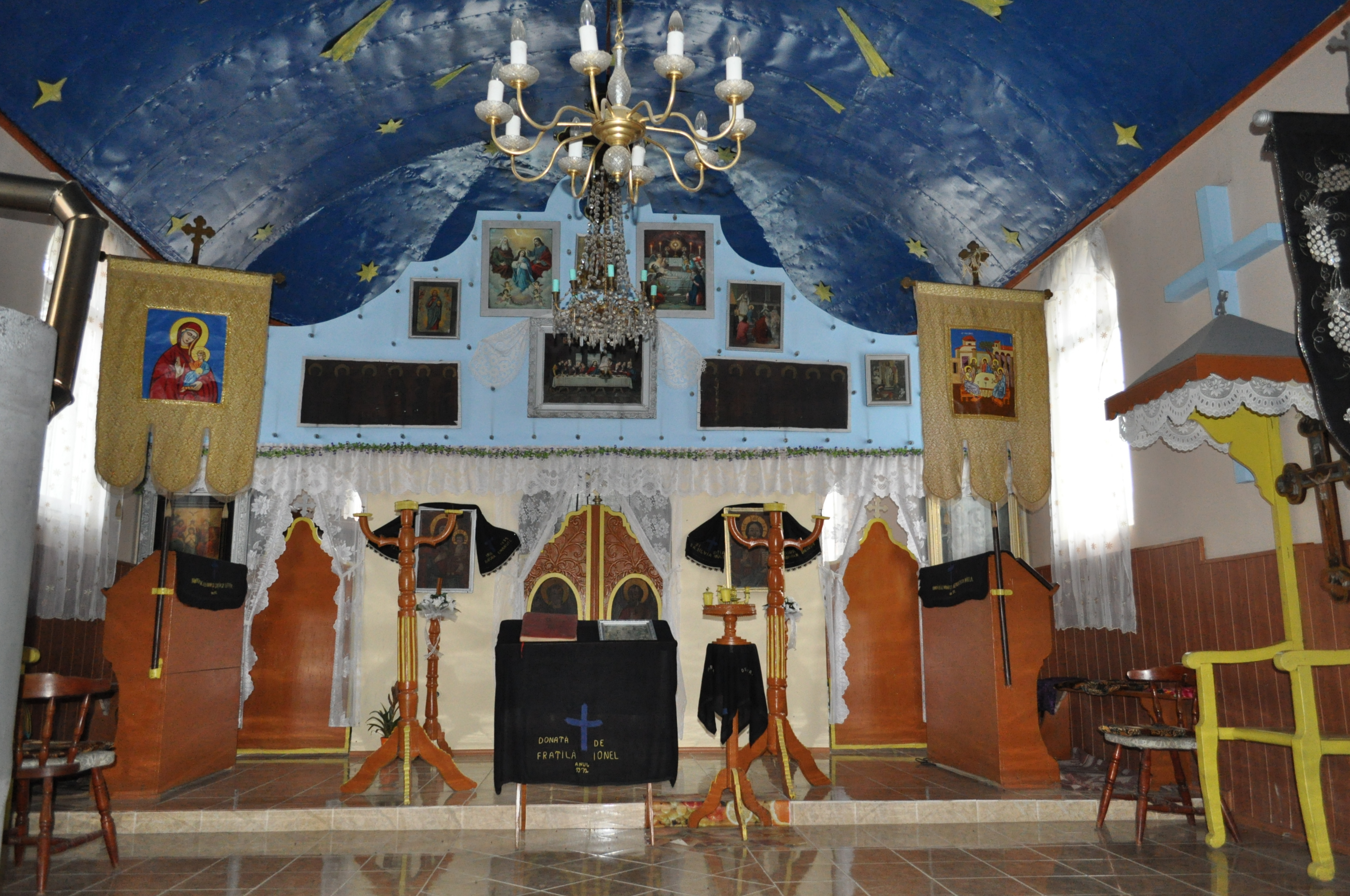 Wooden church in Baia, Arad county, Romania